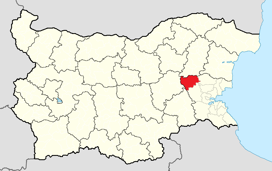 Location map of Sungurlare Municipality within Bulgaria and Burgas Province Equirectangular projection, N/S stretching 130 %. Geographic limits of the map: N: 44.4° N S: 41.1° N W: 22.1° E E: 28.9° E